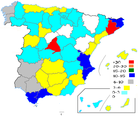 Map of Carrefour in provinces of Spain. Incluyed Carrefour Express